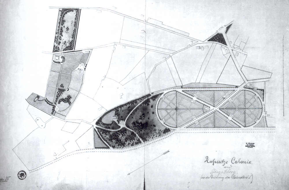 Potsdam, Germany, map of Russian Colony Alexandrowka and Pfingstberg